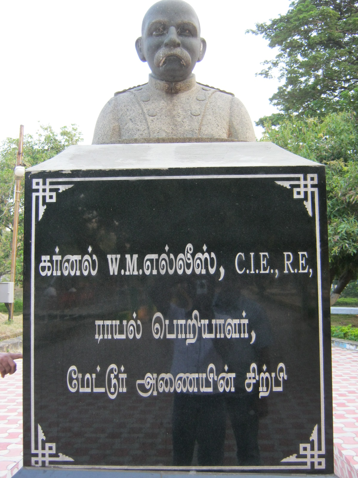 Col W.M.Ellis is called ad Royal engineer for his design of Mettur dam.